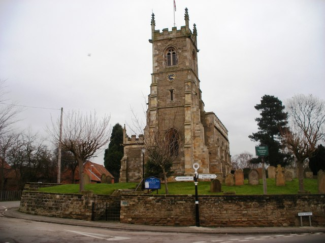 Bothamsall Church